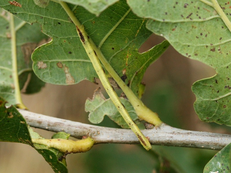 Electrophaes corylata, larva. Location: The Netherlands - Beneden Regge - Velderberg